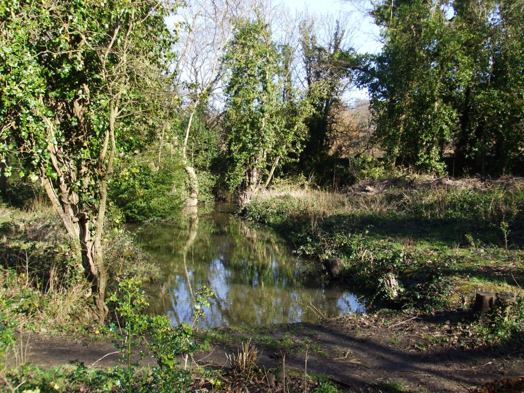 The outfall of Latchmere Stream in Ham Woods, Ham Common, near to Ham Gate of Richmond Park from Ham Gate Avenue looking north. The view shows the regeneration of vegetation following restoration work in late 2012 and the high water level seen here followed the period of high rainfall and widespread flooding in early 2014.